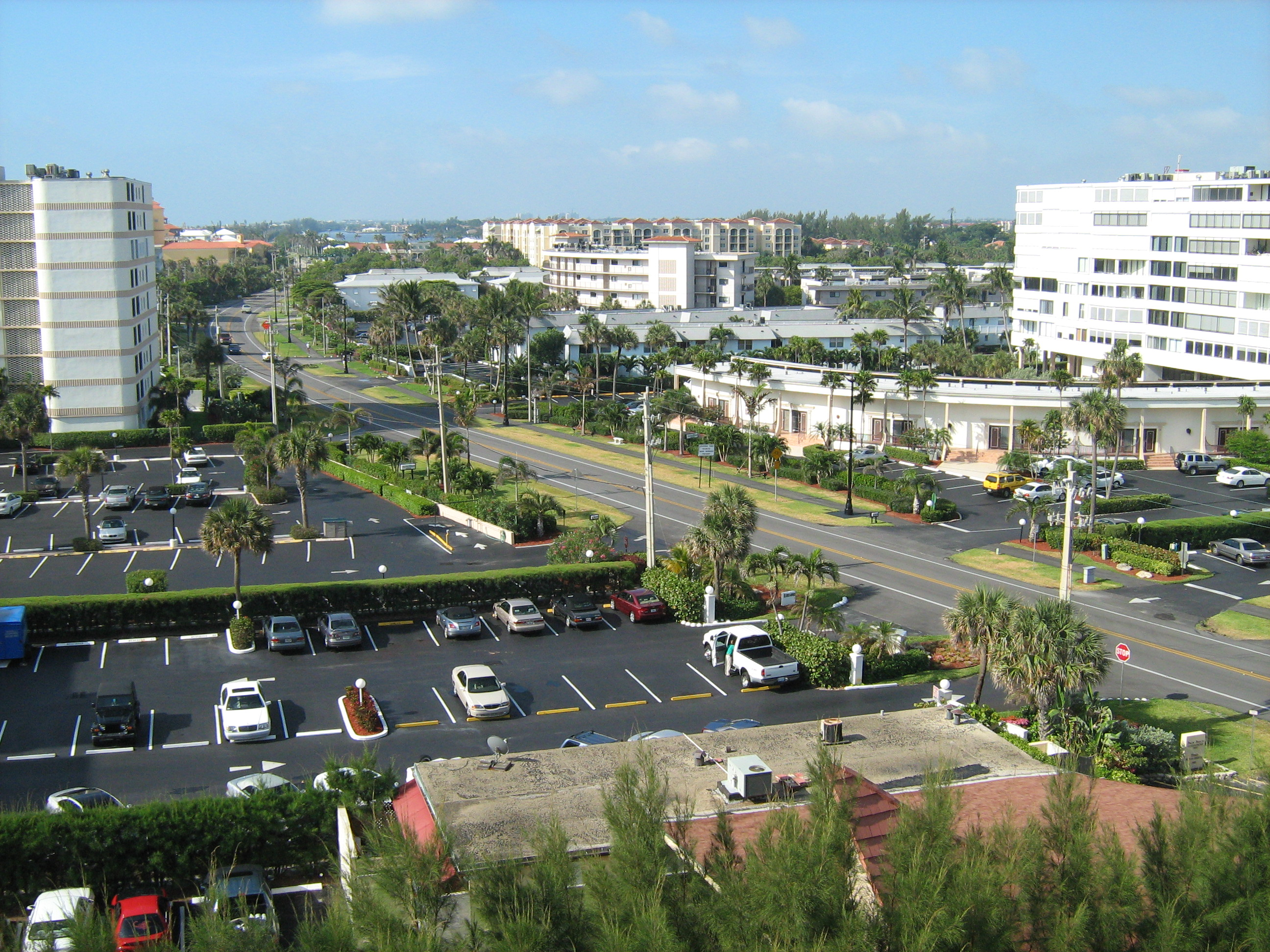 View from the center of the Town of South Palm Beach, Florida. Looking south to East Ocean Avenue (linking Lantana). The main road is Florida Route A1A. Visible in the distance is part of Lake Worth Lagoon that borders the town from the west. The Atlantic Ocean, which is on the left and not visible in the photograph, is due east.